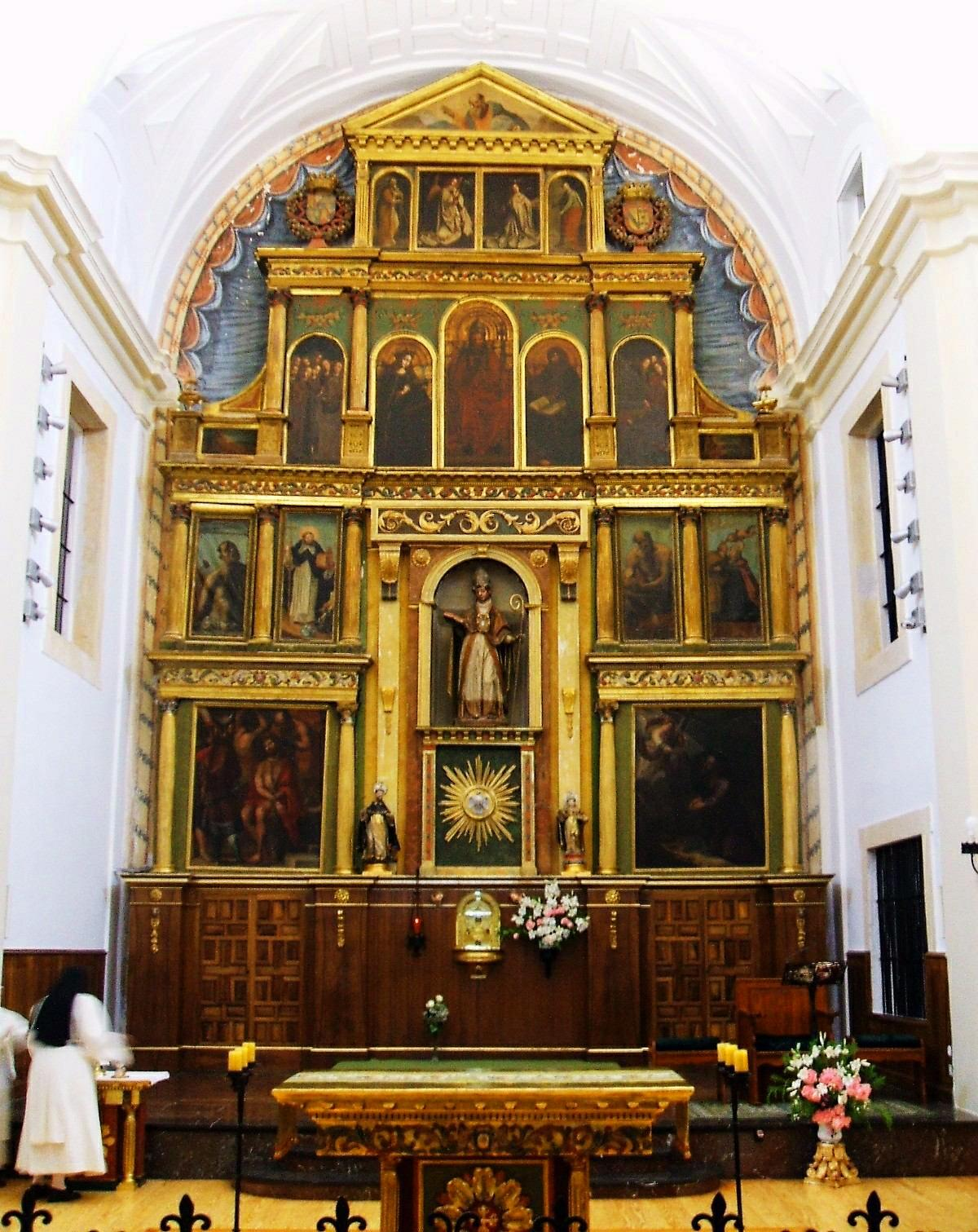 Retablo mayor protobarroco del Convento de San Blas, en Lerma (Burgos, Castilla y León, España)